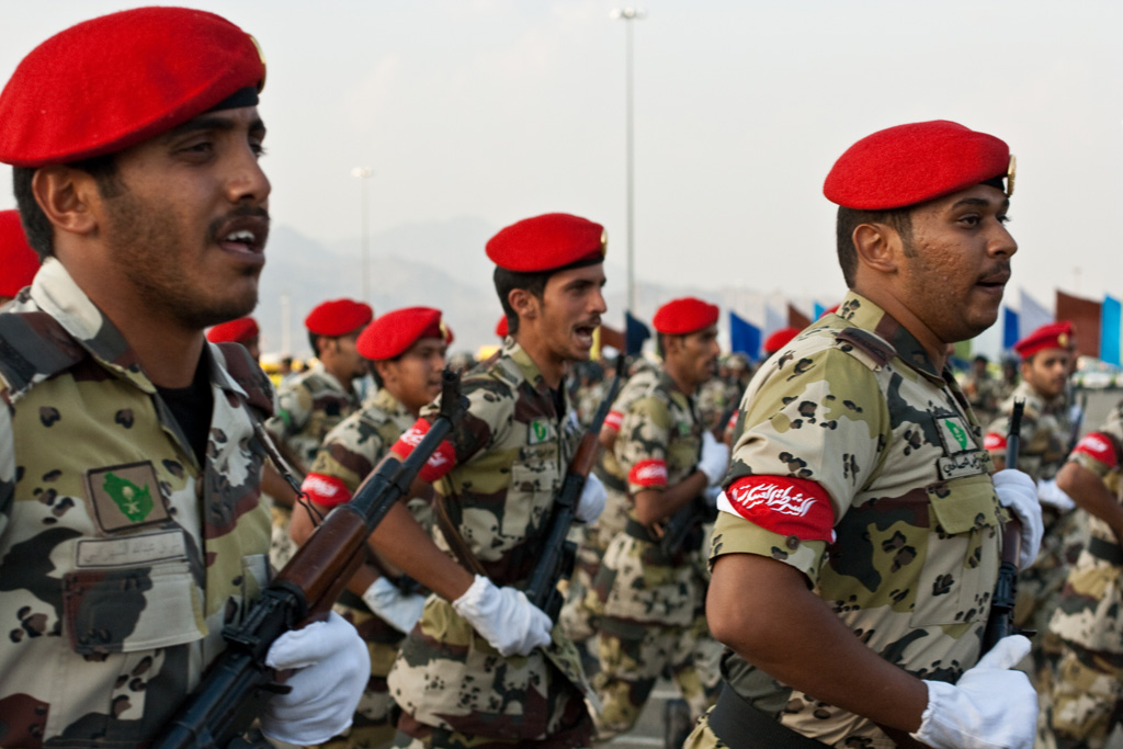 Photo by Omar Chatriwala